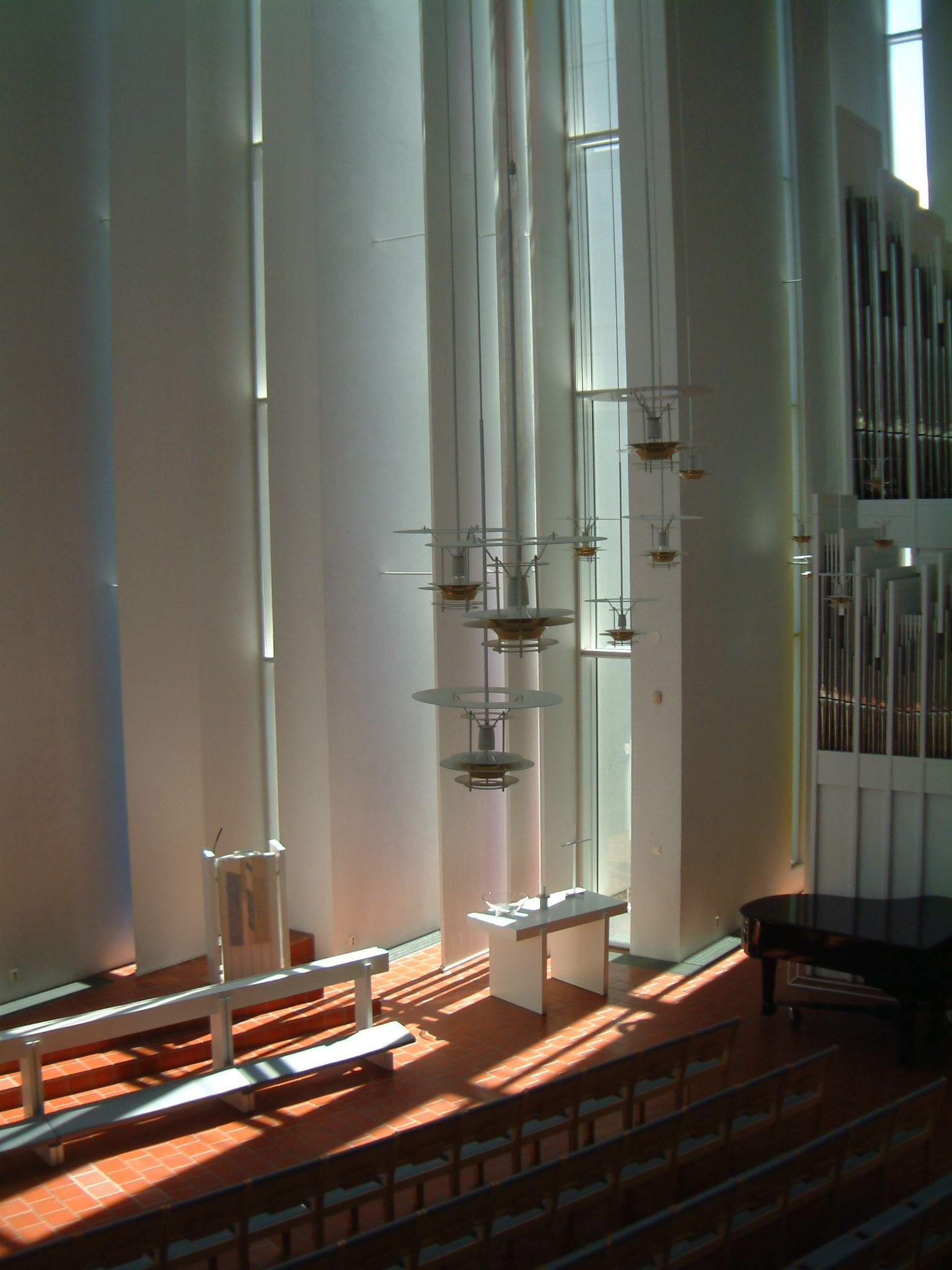 Männistö Church in Kuopio, Finland, was designed by architect Juha Leiviskä and completed in 1992.